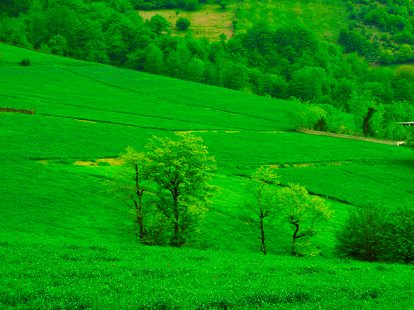 Village Nature churat